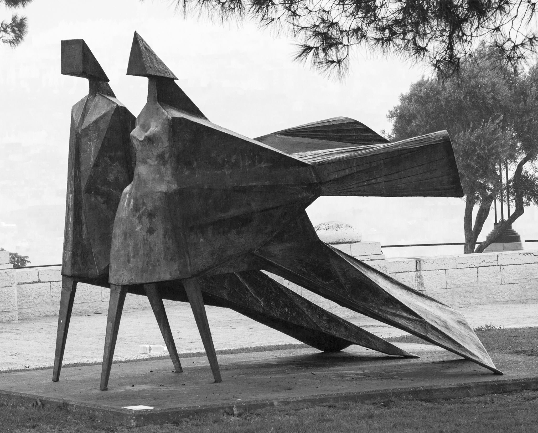 Jerusalem, East Talpiot, Dani'el Yanovski street - Sculptor: Iynn Chadwick (1914 - 2003), Jubilee IV 1985